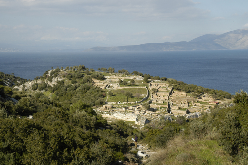 J. M. Harrington, personal digital image